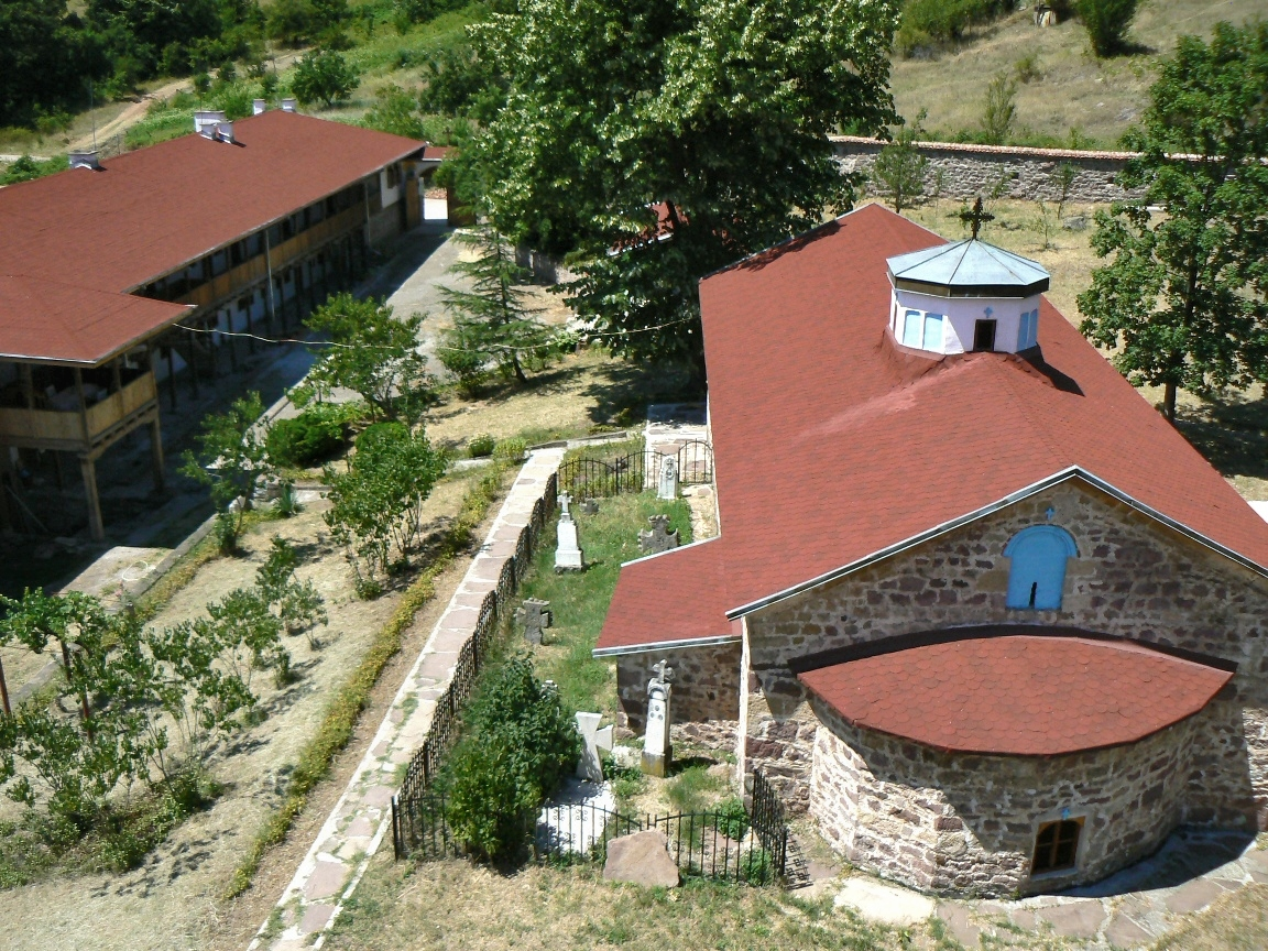 The yard of Chiprovski monastery, Bulgaria - the church and monks' cloister, as seen from the third floor of the Ossuary